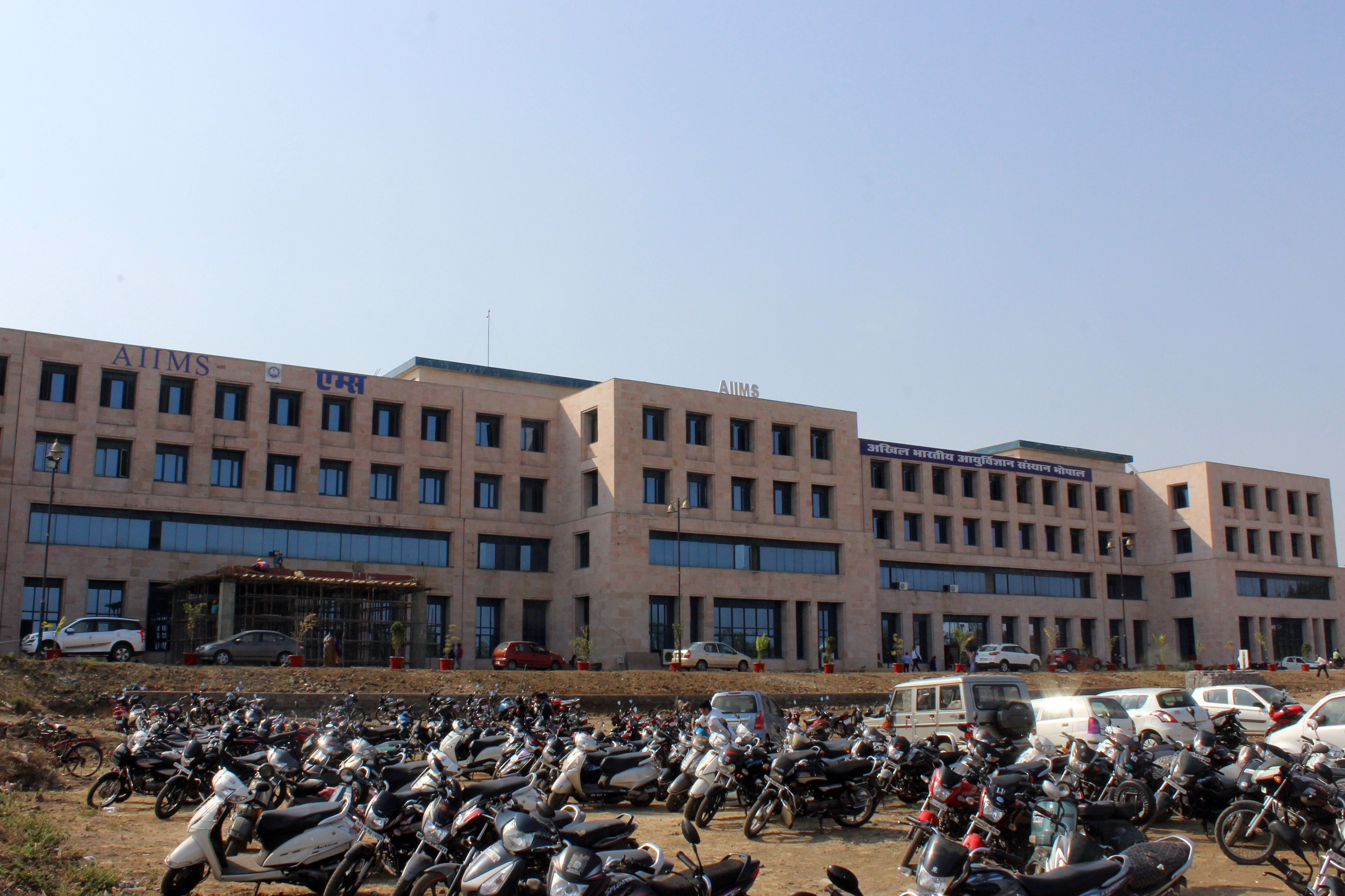 AIIMS Bhopal Building Front